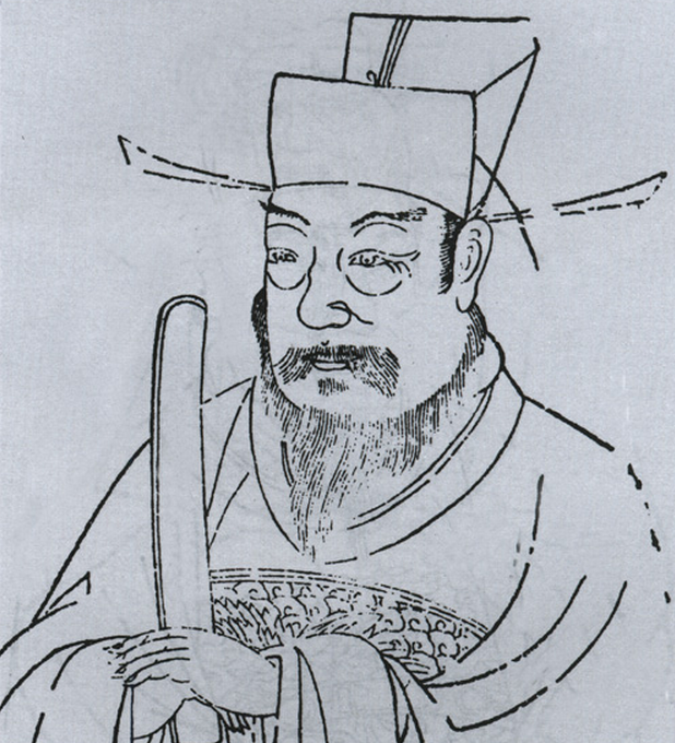 Li Xian, politician of the Ming Dynasty.